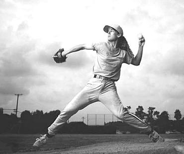 Plaza del Vapor_Eulalia González-Vivaya, Havana